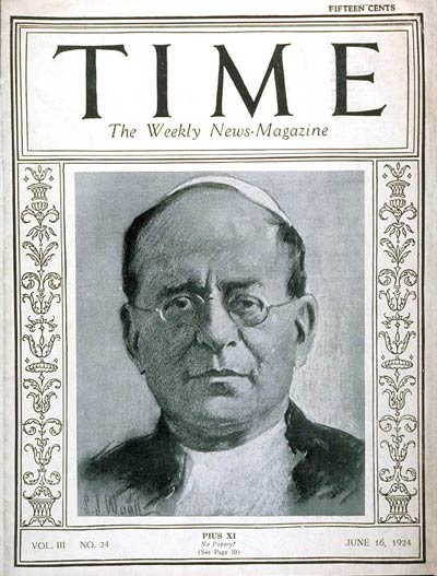 Time Magazine Cover Featuring Pope Pius XI (16 Jun 1924)